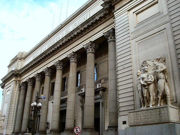 Casa Central del Banco República, Ciudad Vieja, Montevideo, Uruguay.